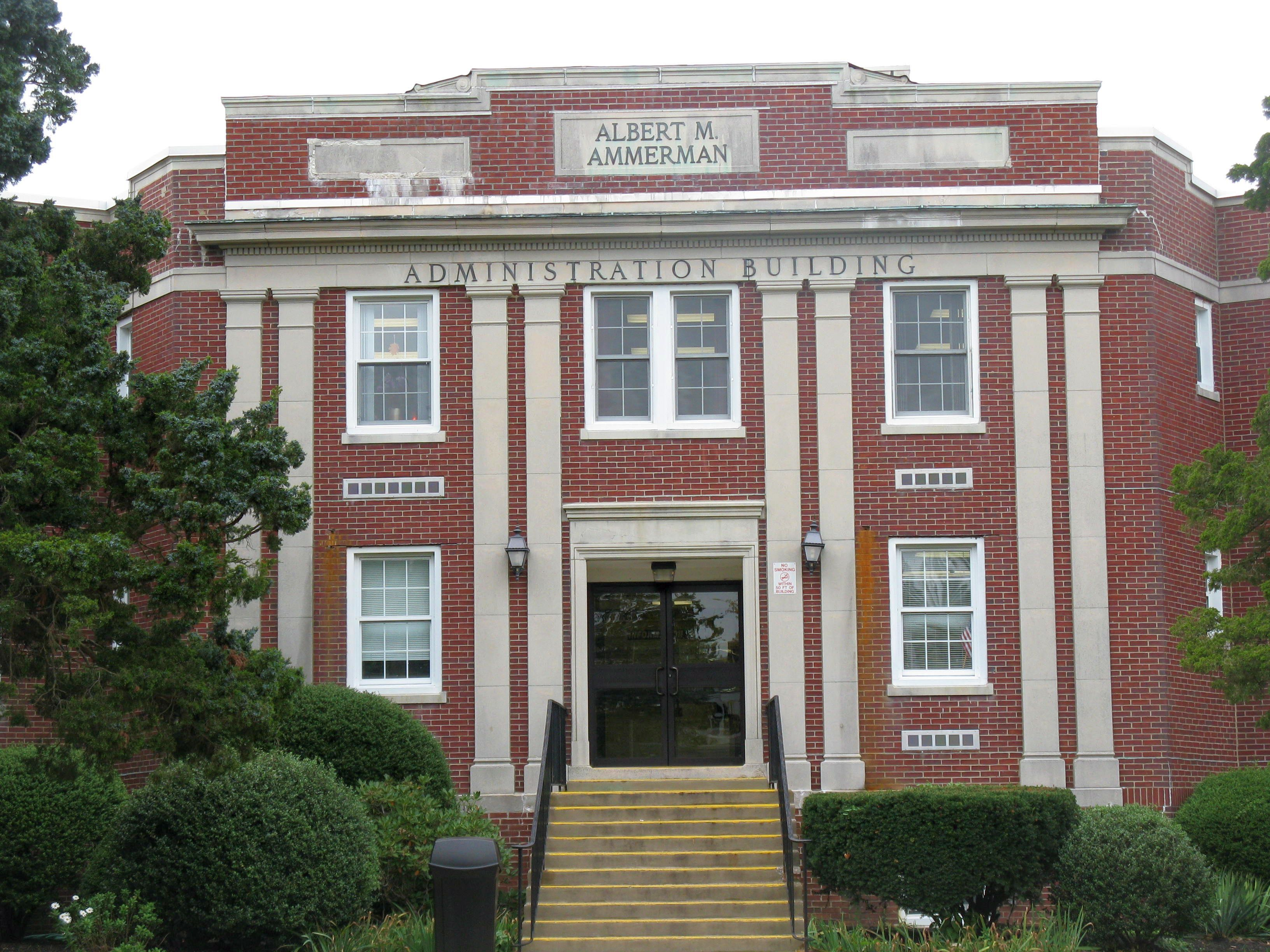 Administration Building at Suffolk County Community College, Selden, New York